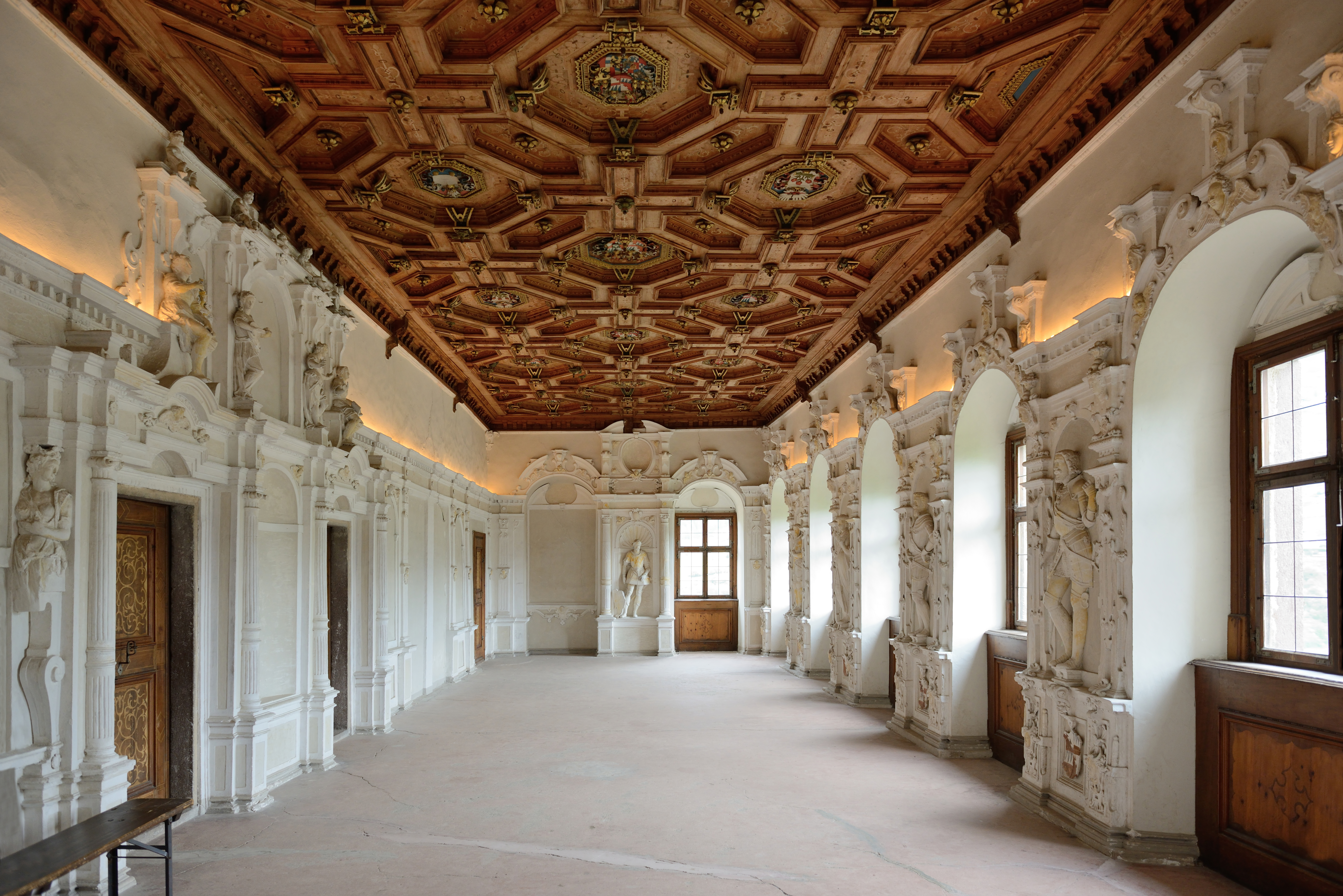 The castle Trostburg in South Tyrol - The great hall. Stucco by Joseph Proy